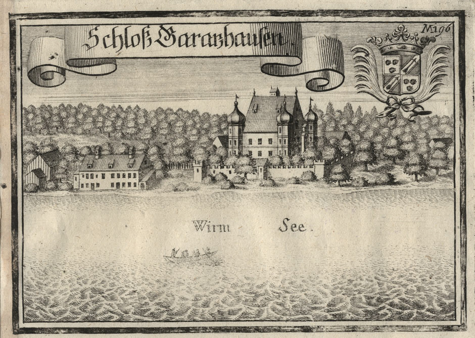 Schloss Garatshausen